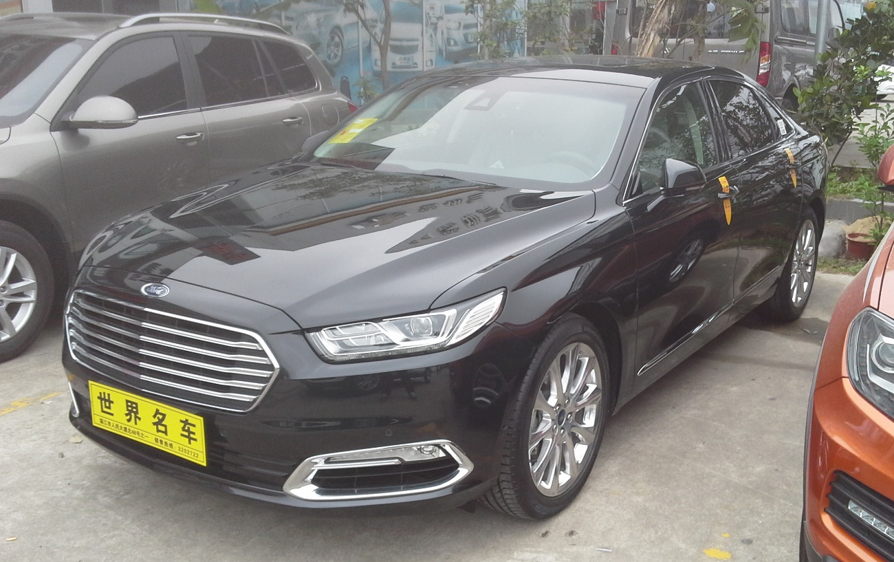 Ford Taurus CN photographed in Zhanjiang, Guangdong province, China.